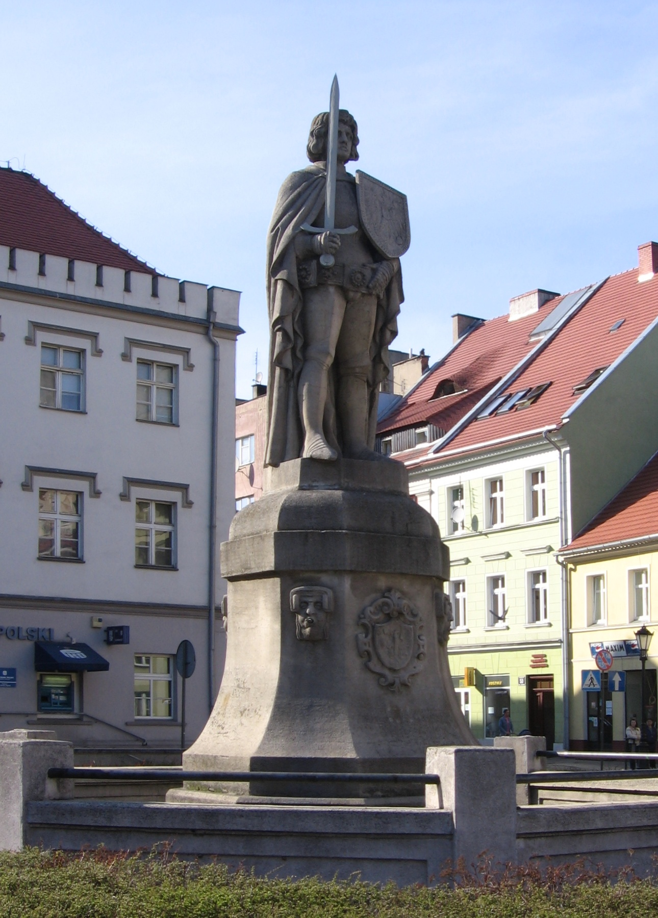 fountain with Roland sculpture in the center of town Środa Śląska, Poland